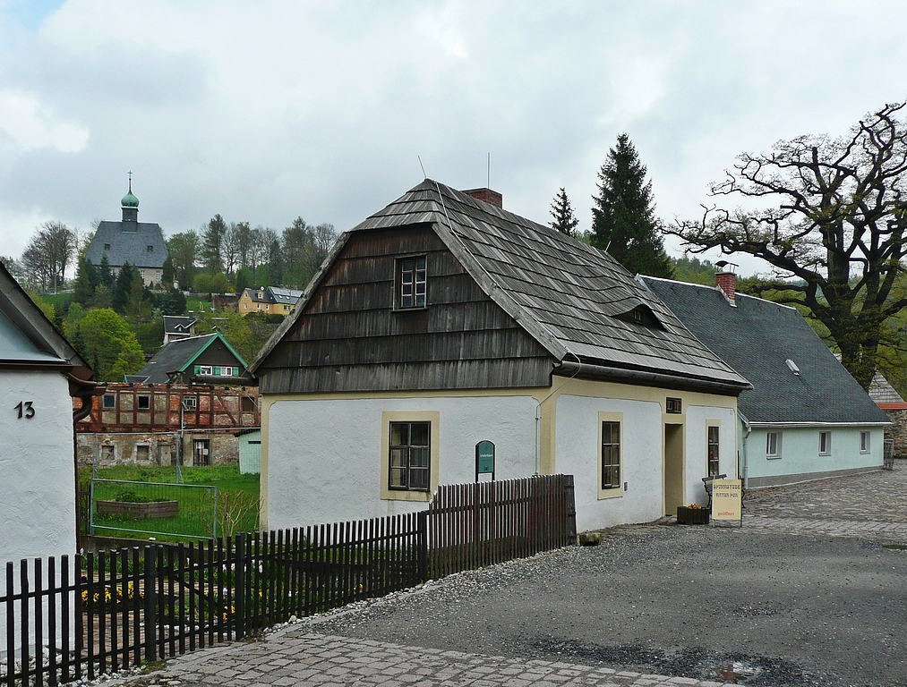 Olbernhau-Grünthal, historic copperworks, worker houses, background: church of Oberneuschönberg.